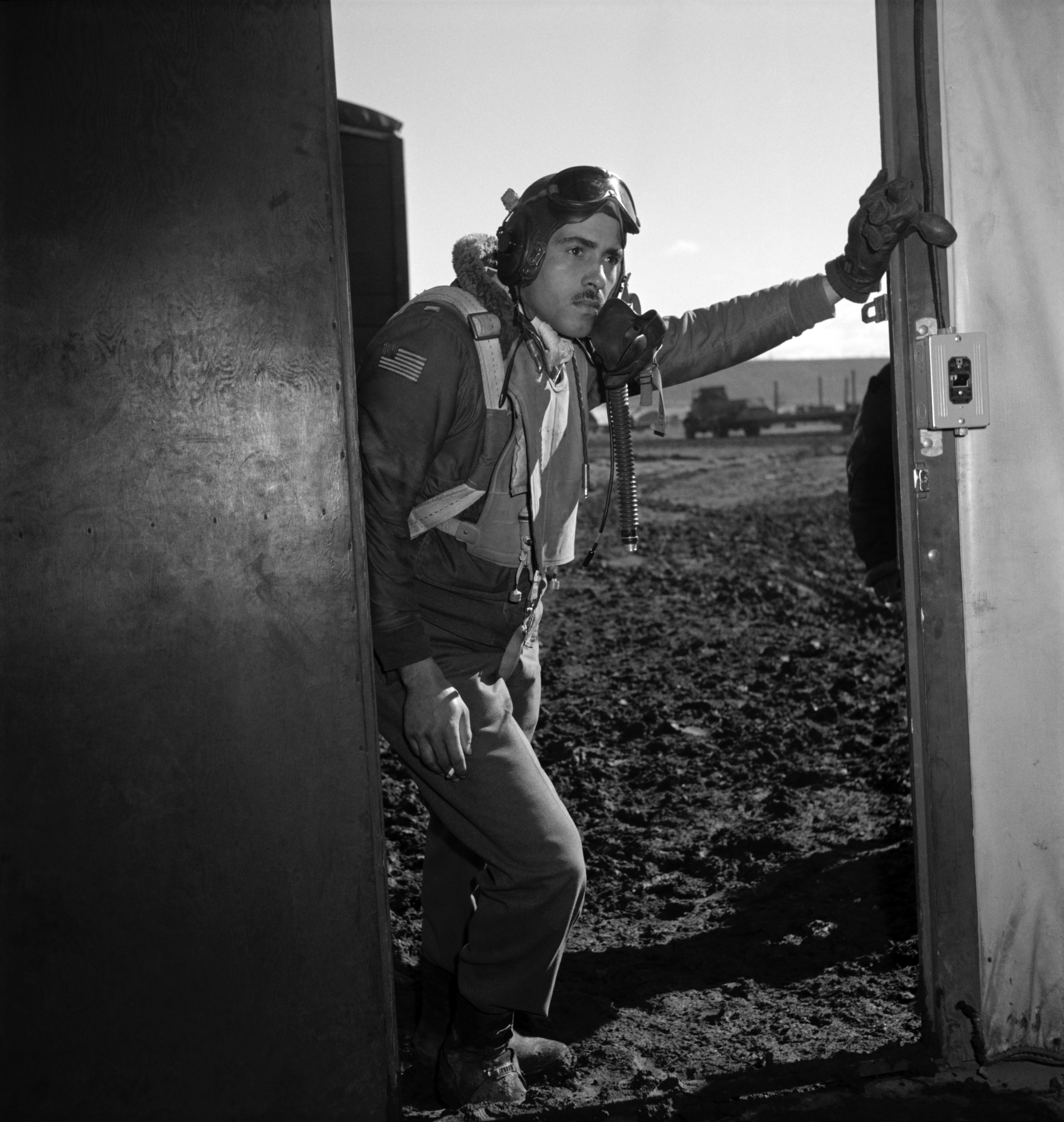 Photograph shows Tuskegee airman Edward M. Thomas of Chicago, IL, Class 43-J. Ramitelli, Italy, March 1945. (Source: Tuskegee Airmen 332nd Fighter Group pilots.)